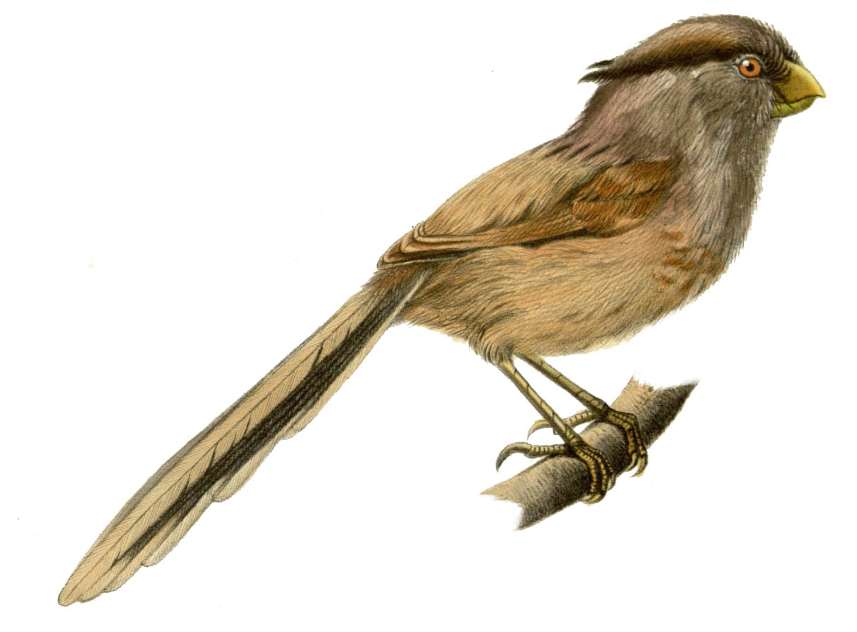 Paradoxornis heudei